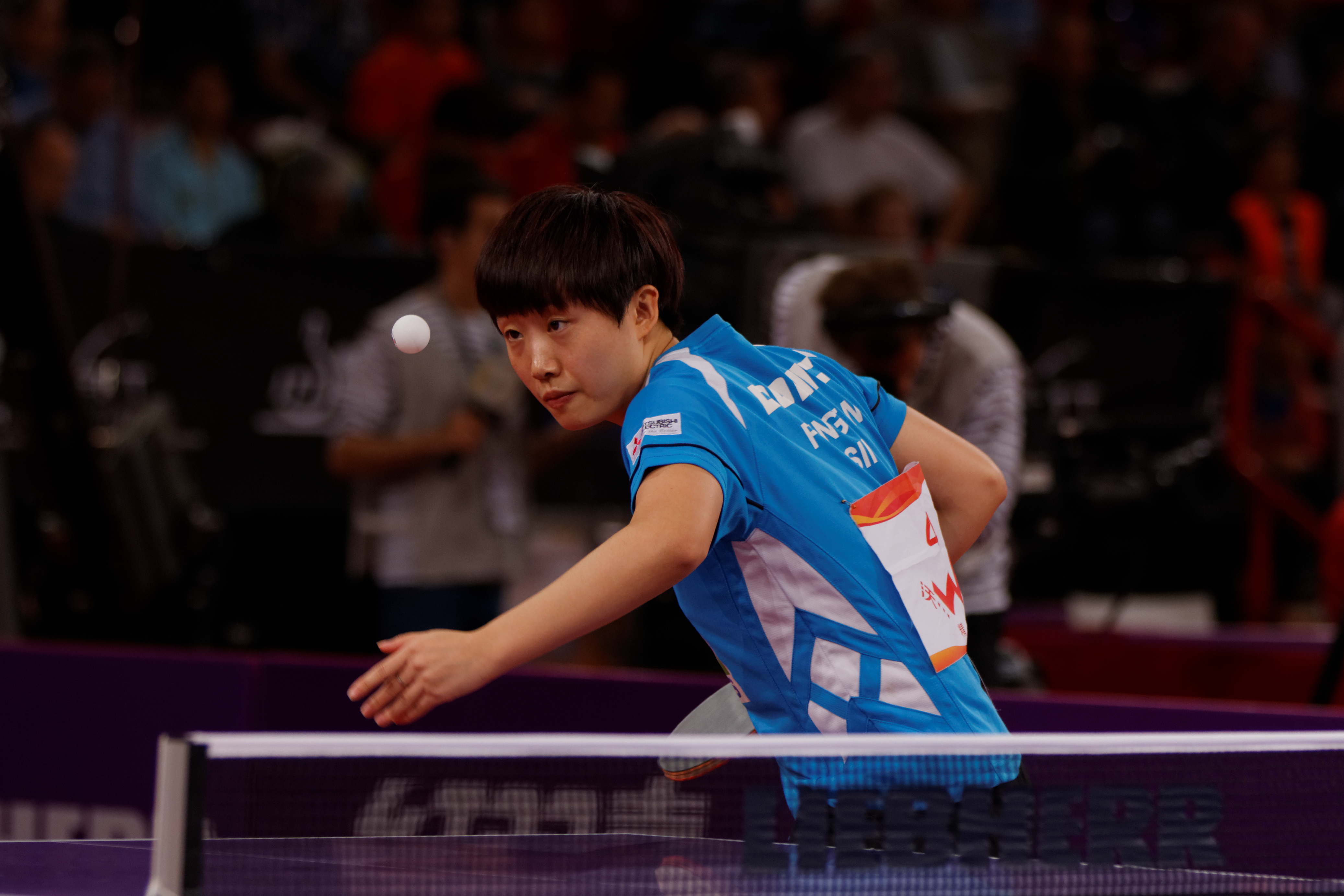 2013 World Table Tennis Championships, Paris. Women's Singles Quarterfinal. Zhu Yuling vs Feng Tianwei.